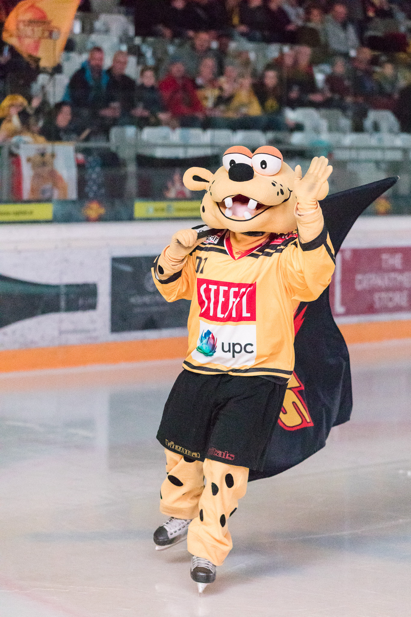 2017-11-17 Vienna Capitals vs Fehervar AV19